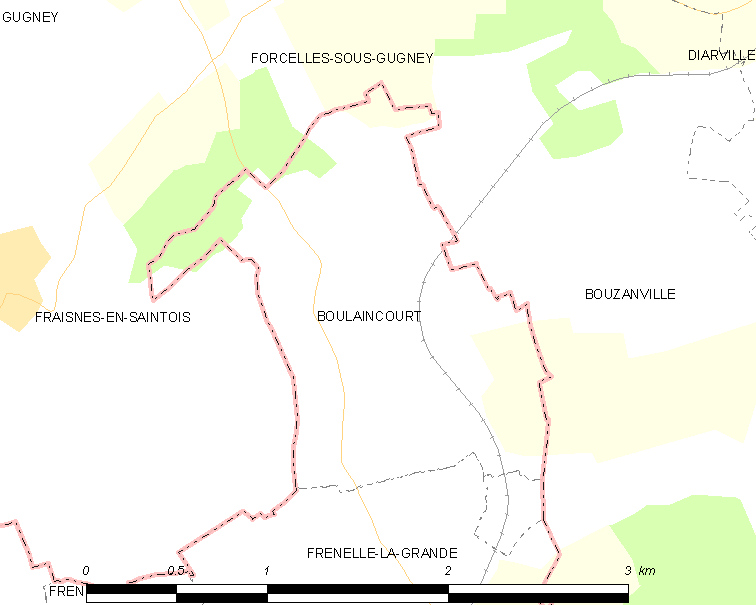 Map of French municipality Boulaincourt